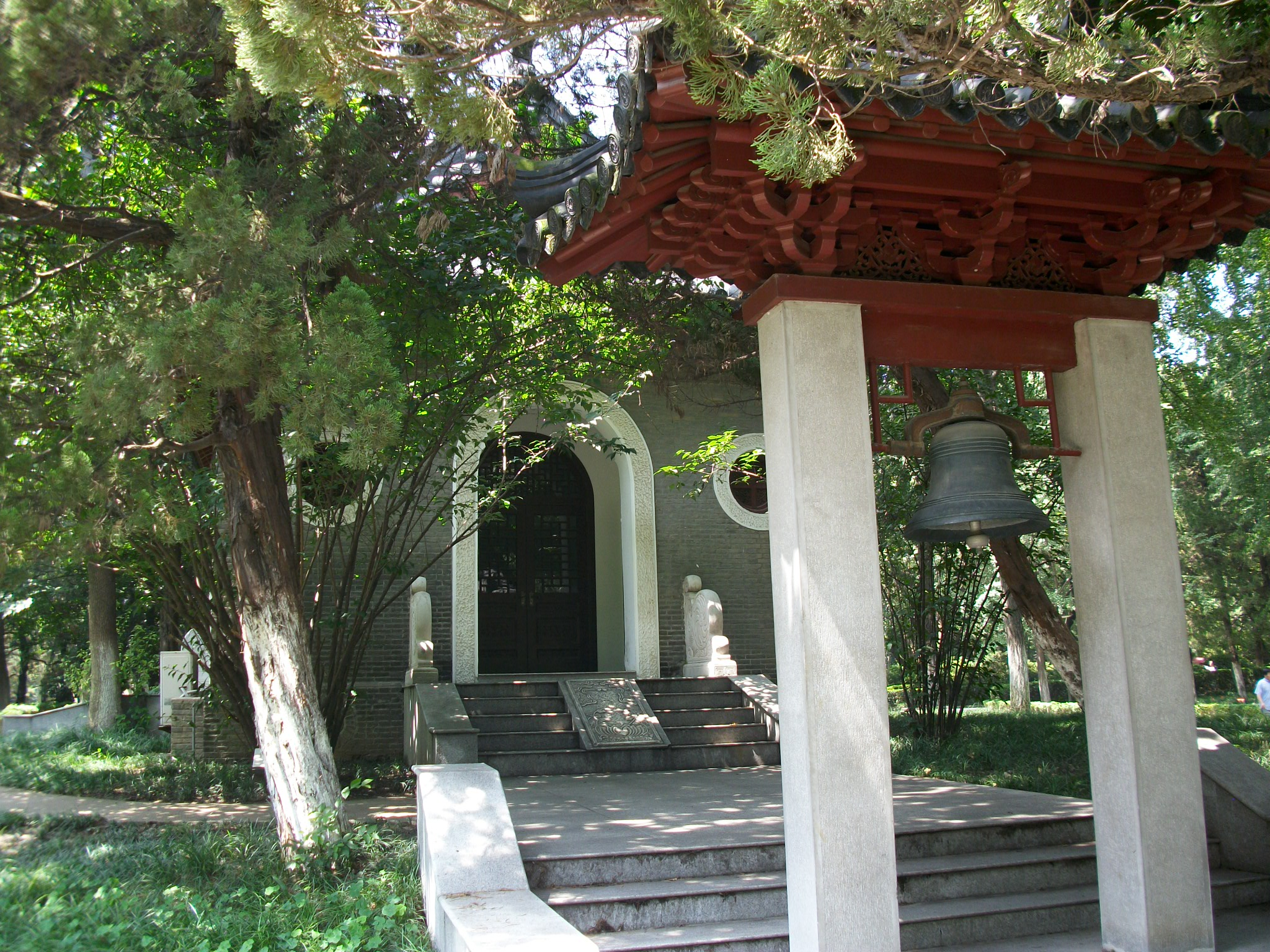 The small auditoria in Nanjing University.